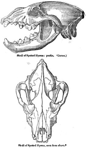 Spotted hyena skull